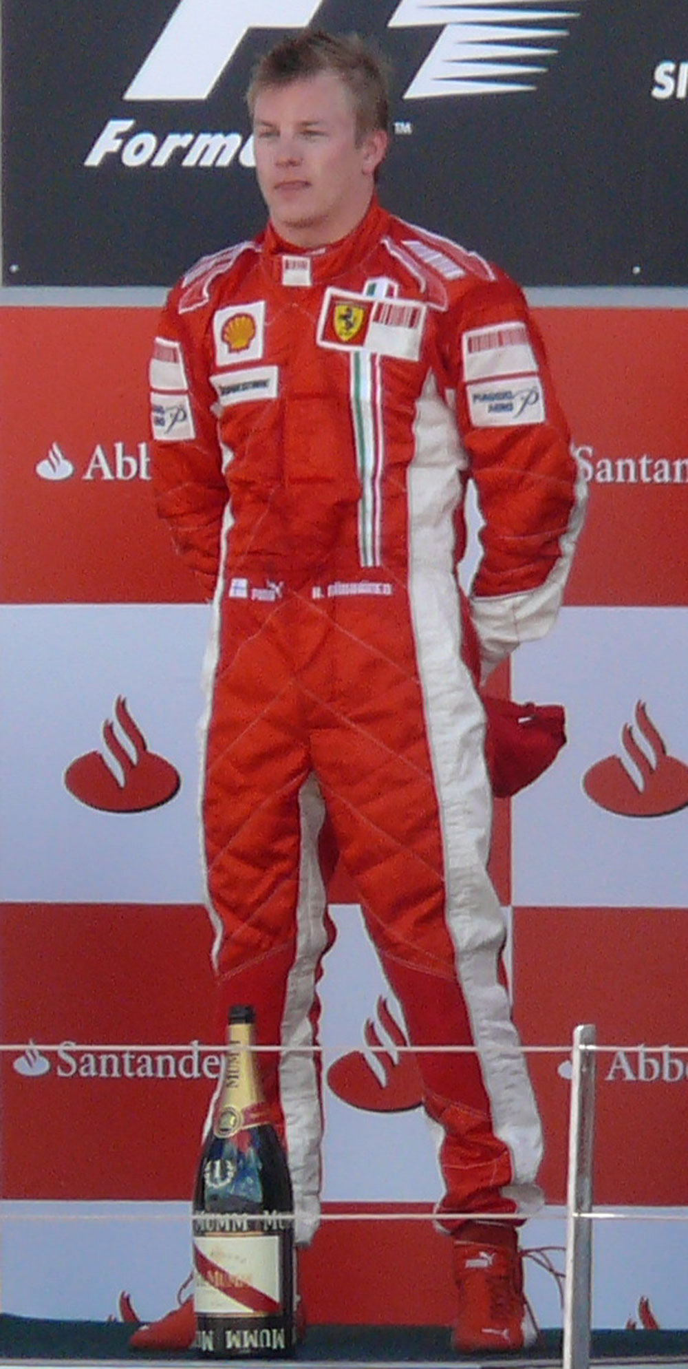 Kimi Räikkönen in SIlverstone Circuit Podium.